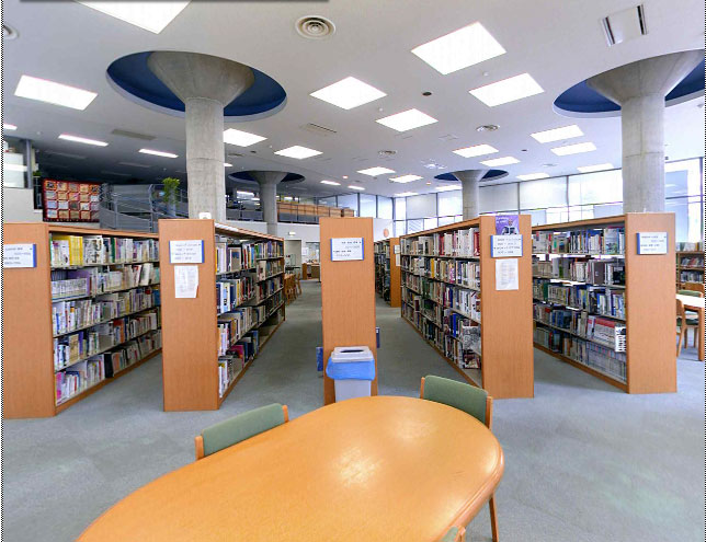 Senri Osaka International School Library in Minoh city, Osaka prefecture, Japan.